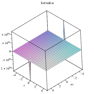 Kelvin Ker(v,z) function